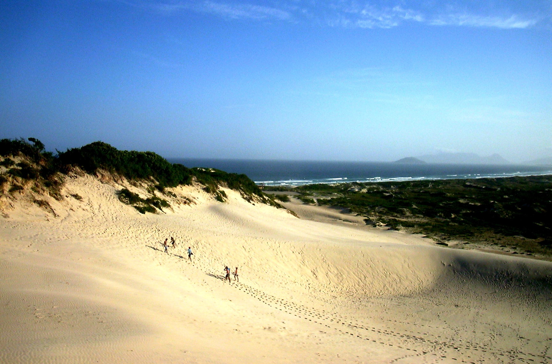 Sand dunes near the Joaquina beach in the island of Florianópolis, Santa Catarina, Brazil. Photographed by Renato M.E. Sabbatini in en:2001.